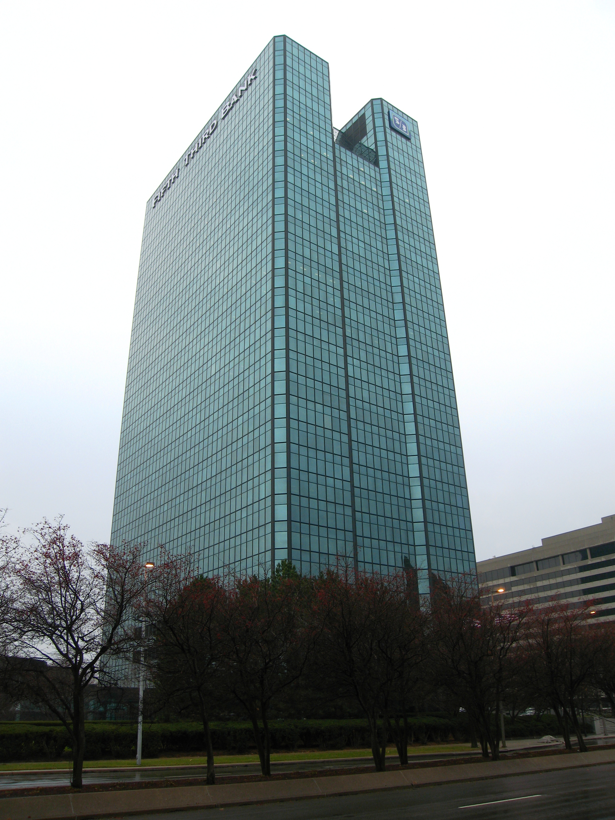 The Fifth Third Center at One SeaGate is the tallest skyscraperen in Toledo, Ohio.